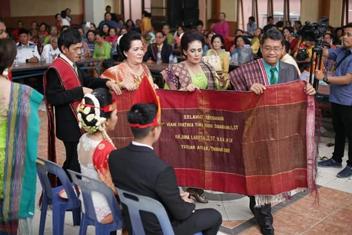 Mangulosi session is an important part of Batak traditional wedding party which symbolizes the recognition and prayer of all families for the continuity of the relationship between the two brides This photo has been taken in the country: Indonesia